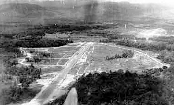 Schwimmer Airfield (14 Mile Dome) - New Guinea.